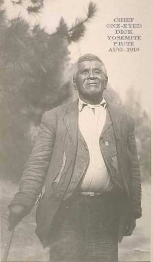 Yosemite Chief George Dick. He was related to Lancisco Wilson. Both were leaders of Yosemite Indians and Paiutes.